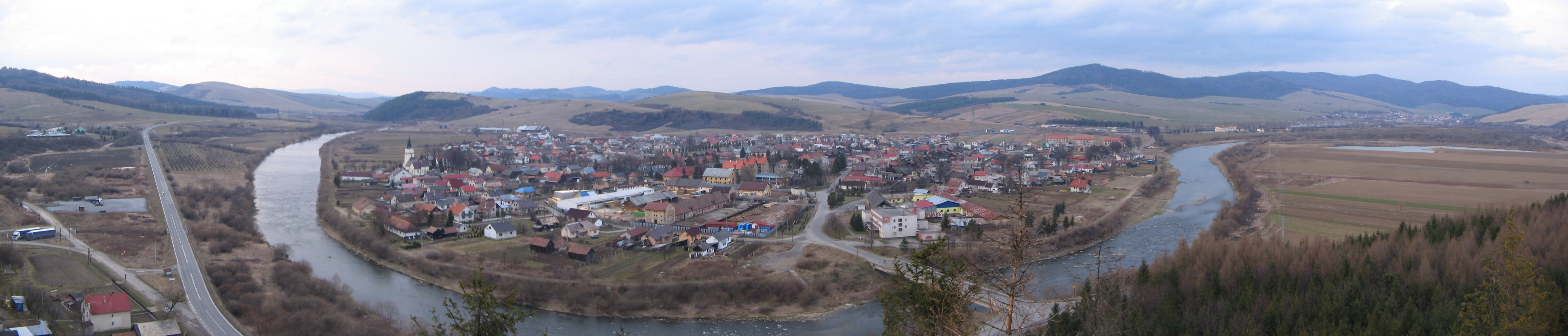 The view of the Plavec from the Castle of Plavec.